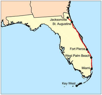 This is a map of the Florida East Coast Railway I made using DOT data.